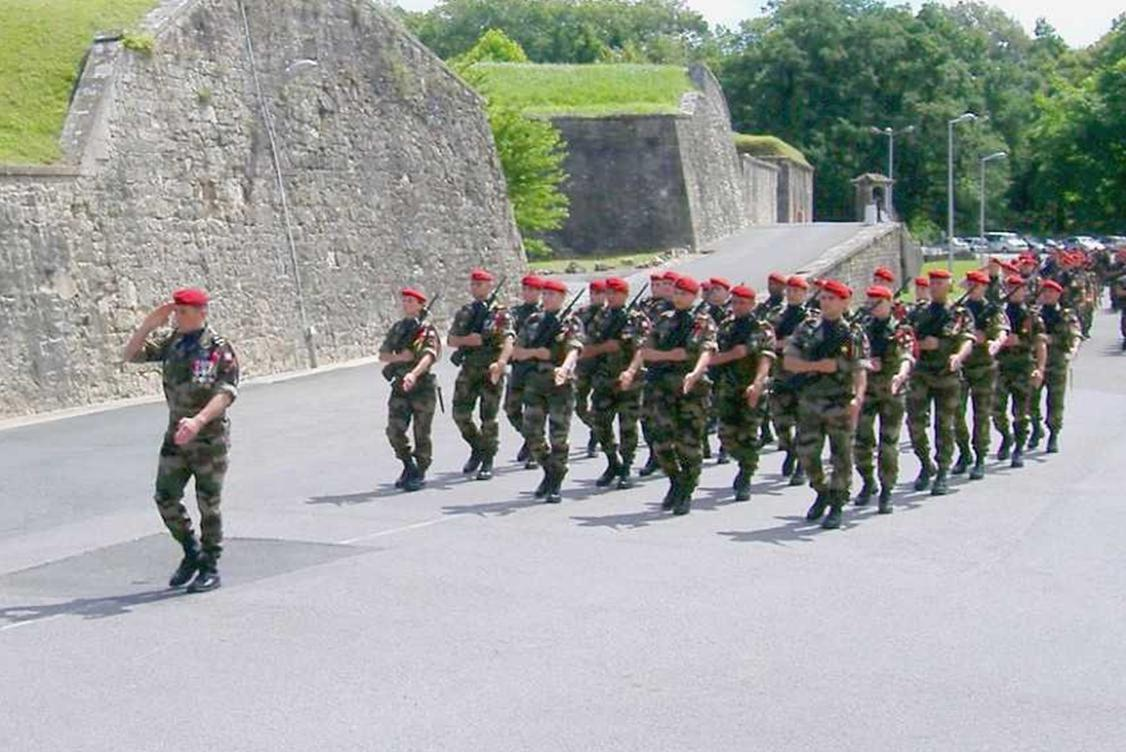 The companies of the 1st Parachute regiment of marines in 2008 in Bayonne.